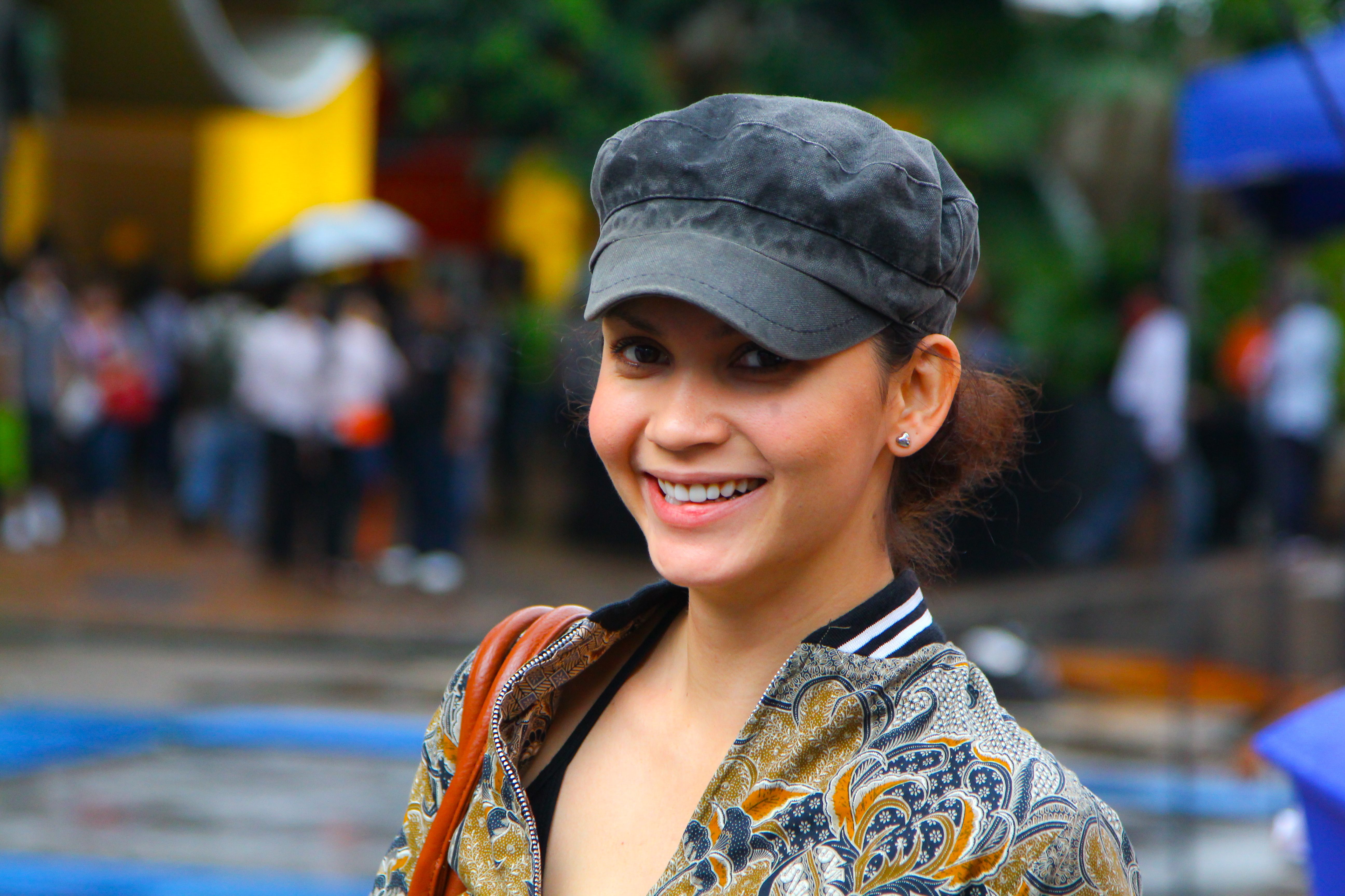 Julia Ziegler